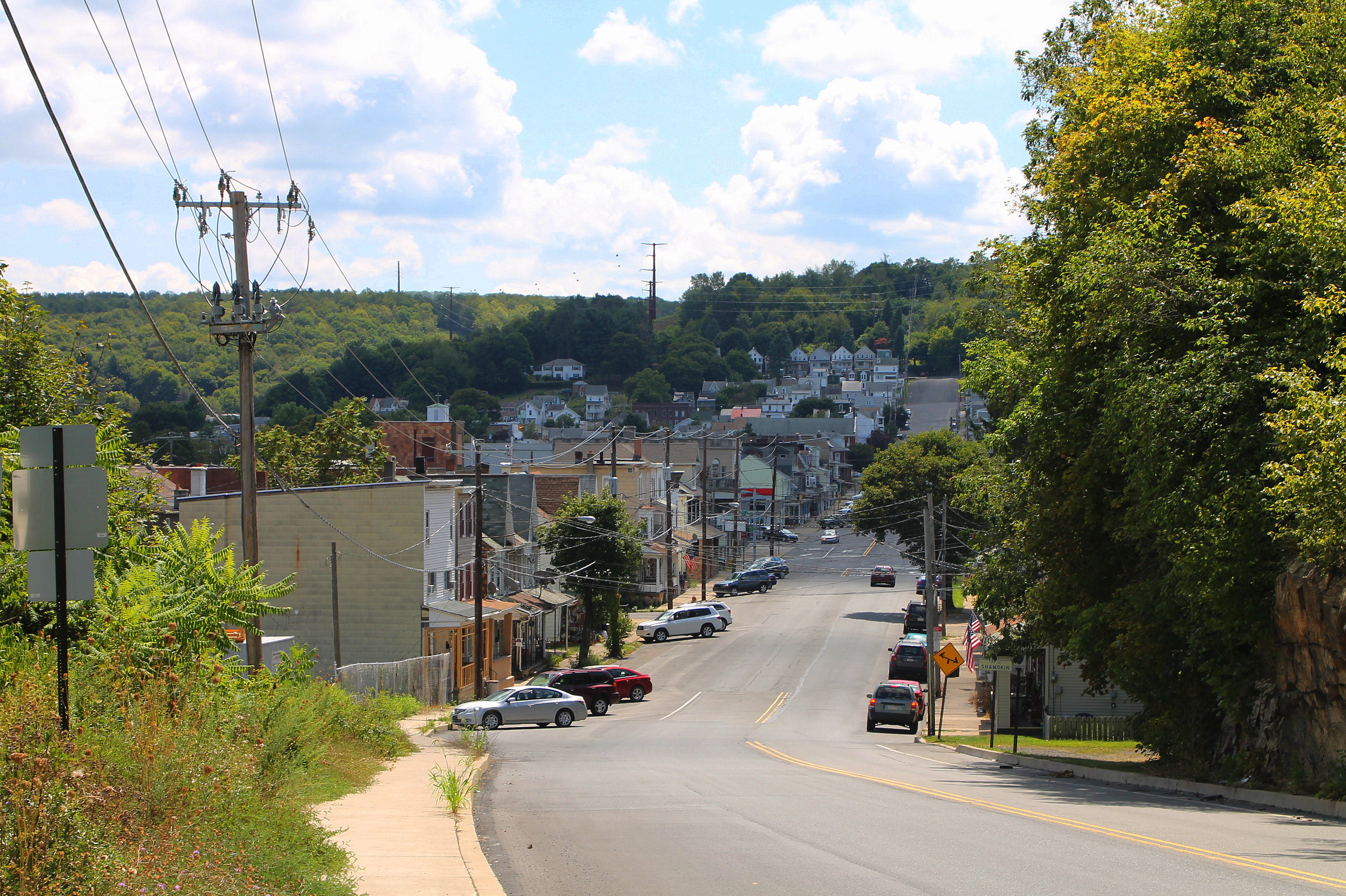 Shamokin, Pennsylvania streetscape